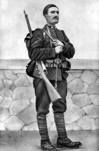 The image is a depiction of Benito Mussolini from 1917 when he was a soldier of World War I